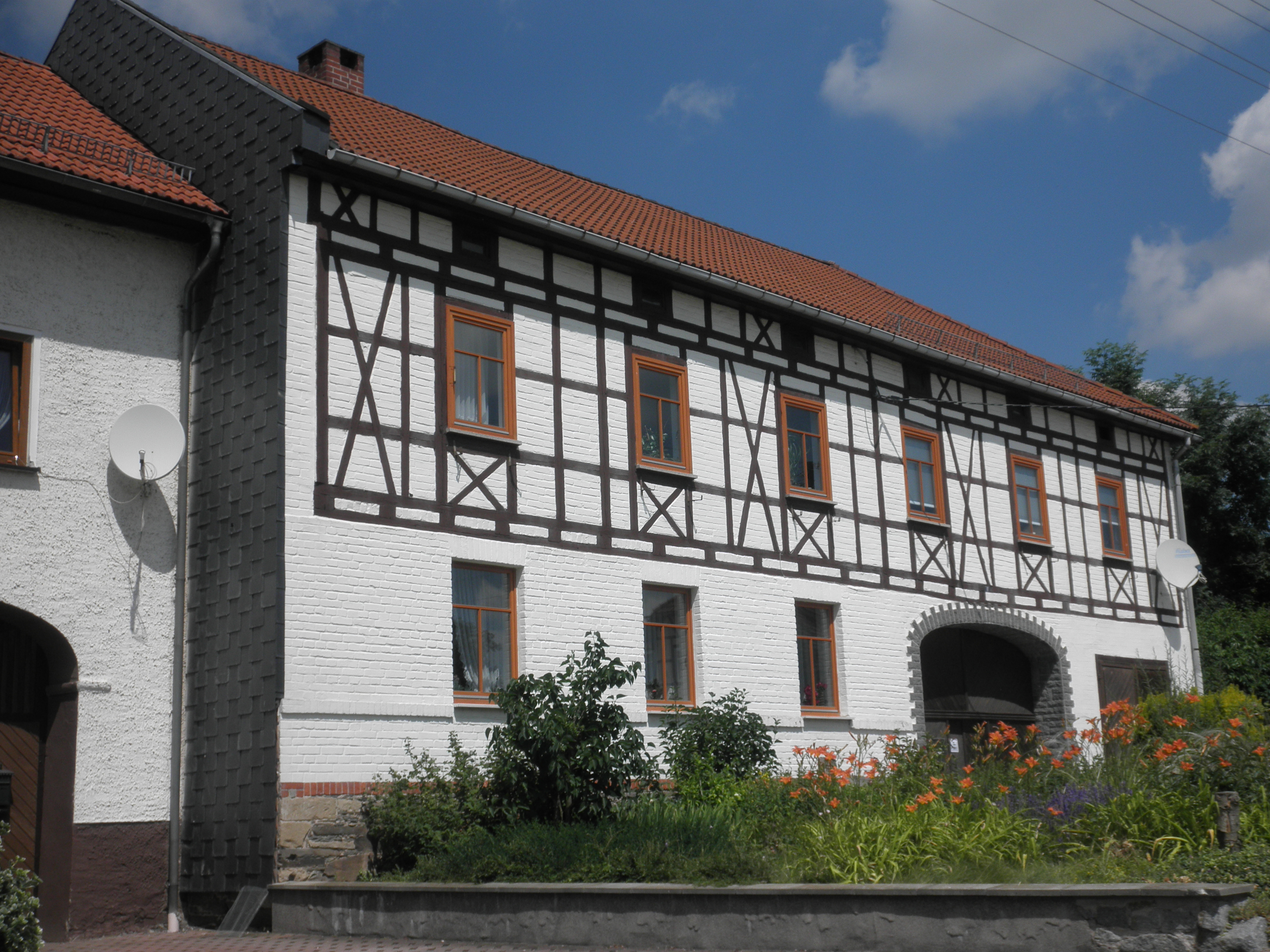 Halftimbered House in Wilhelmsdorf (Saale) in Thuringia